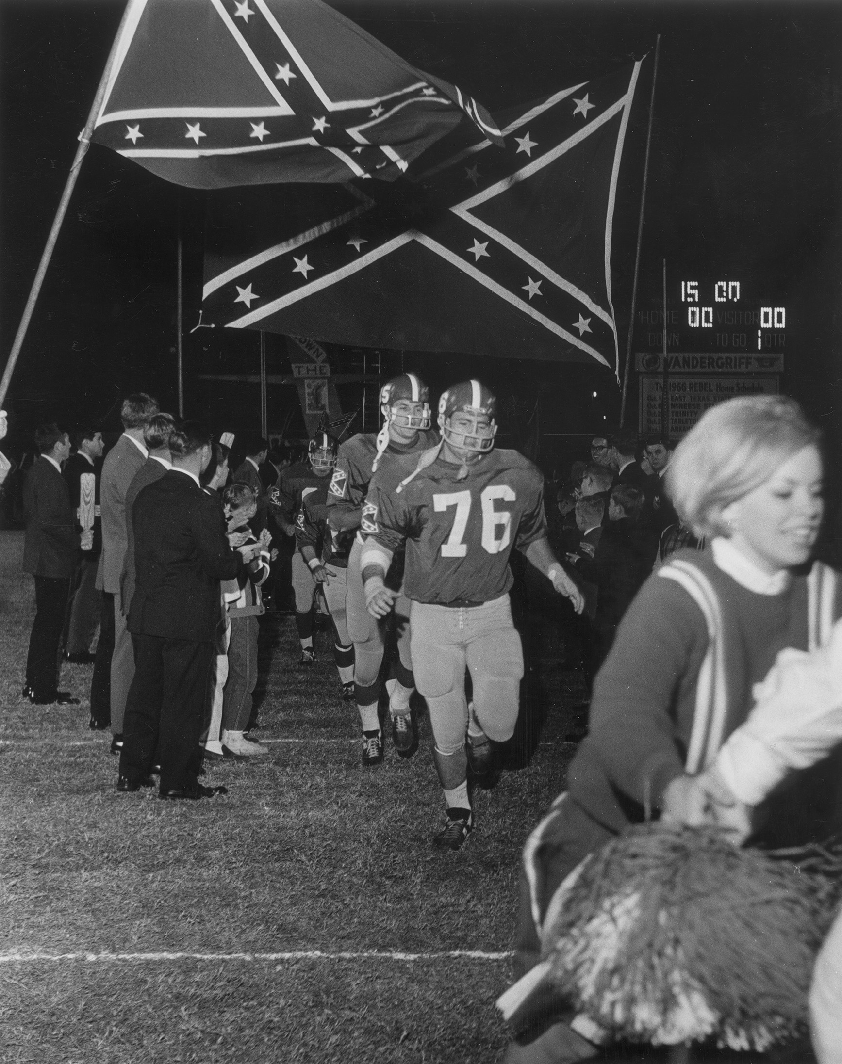 Arlington State College football players running under Rebel flags, led by cheerleader.